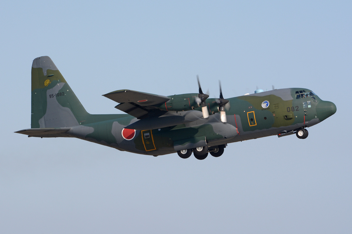 95-1082 (cn 382-5171) Departing after a support mission for the air force's 60th Anniversary preparations. Note badge by front door marking that celebration, carried by all JASDF aircraft in 2014